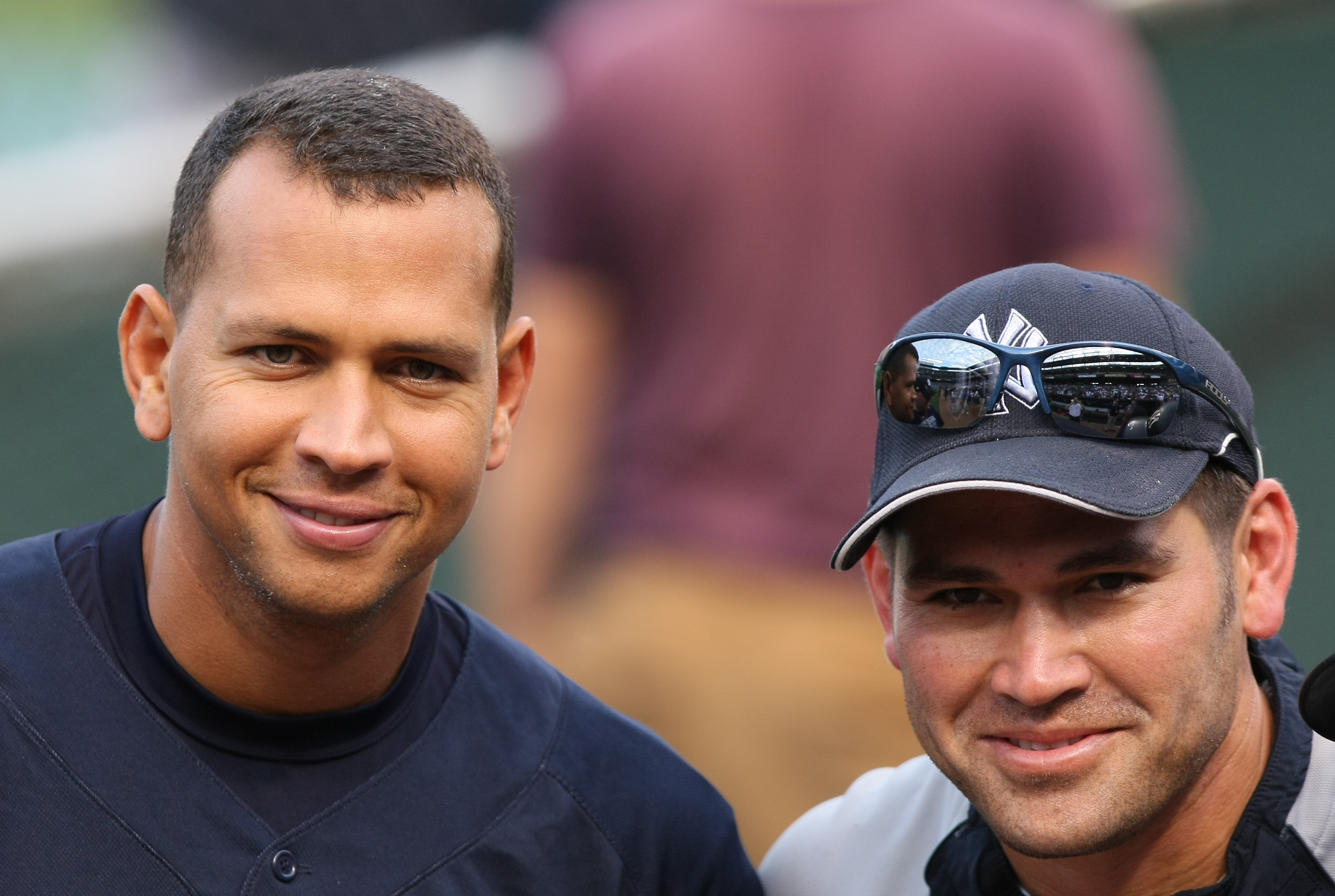 Alex Rodriguez and Johnny Damon.